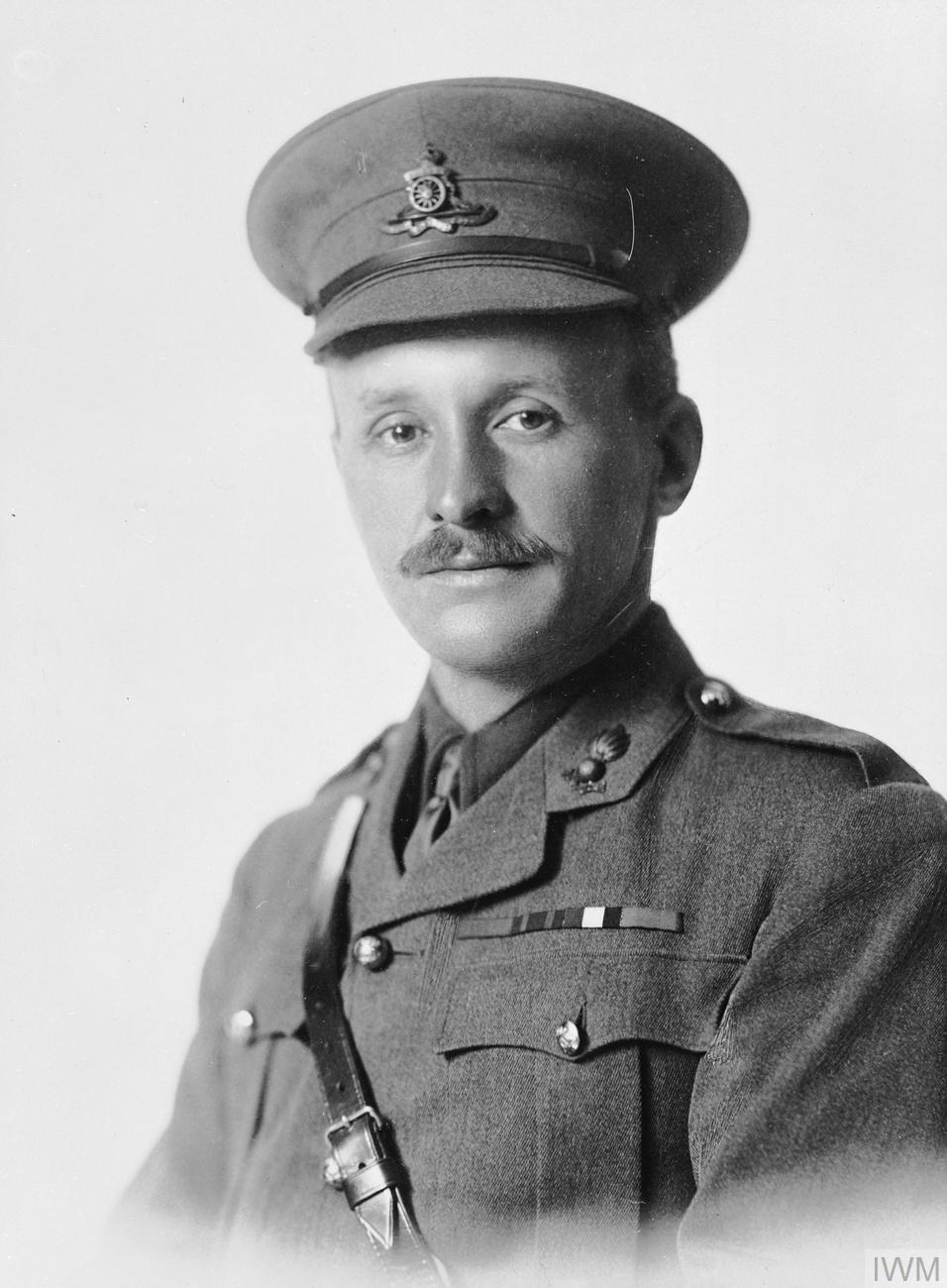 IWM caption : "Title: FIRST WORLD WAR: VICTORIA CROSS HOLDERS' PORTRAITS (GENERAL). Dorrell, George Thomas, L Battery, Royal Horse Artillery: Place and date of deed, Nery, France, 1 September 1914"